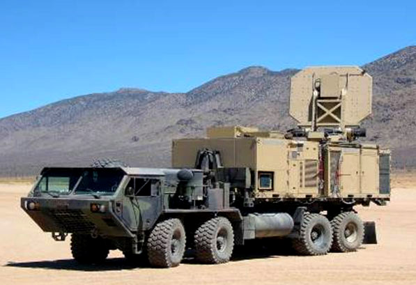 An operational version of the Active Denial System is shown. It is an invisible, counter personnel, directed-energy weapon.